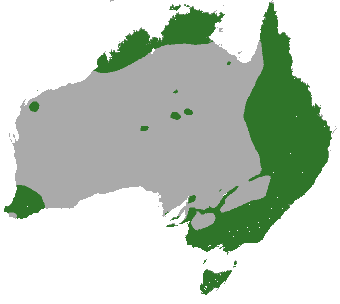 Common Brushtail Possum (Trichosurus vulpecula) range